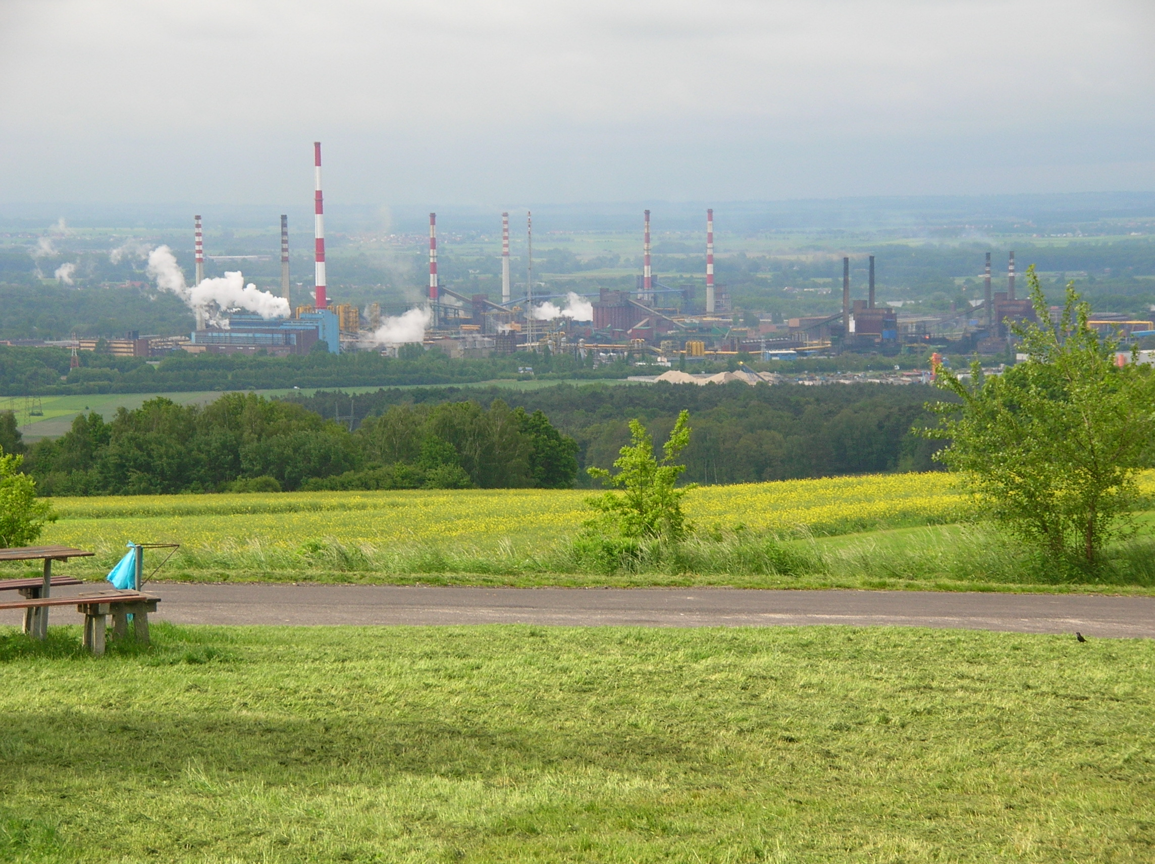 Zdzieszowice